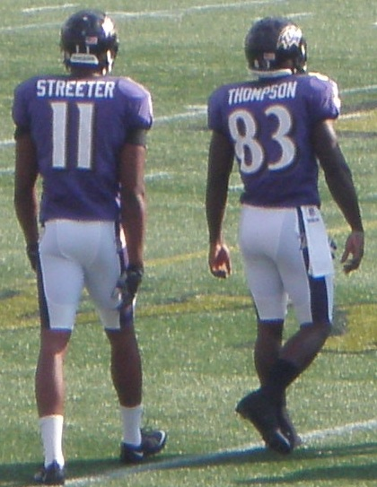 Baltimore Ravens wide receivers Tommy Streeter (left) and Deonte Thompson at Navy-Marine Corps Memorial Stadium in 2012.